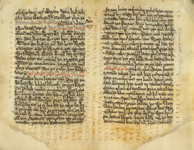 The upper text of the palimpsest with Syriac text, folio 20 recto